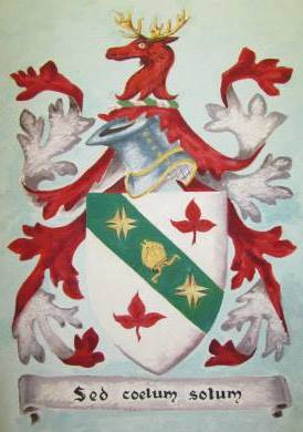 Coat of Arms of The Most Rev. Robert Renison